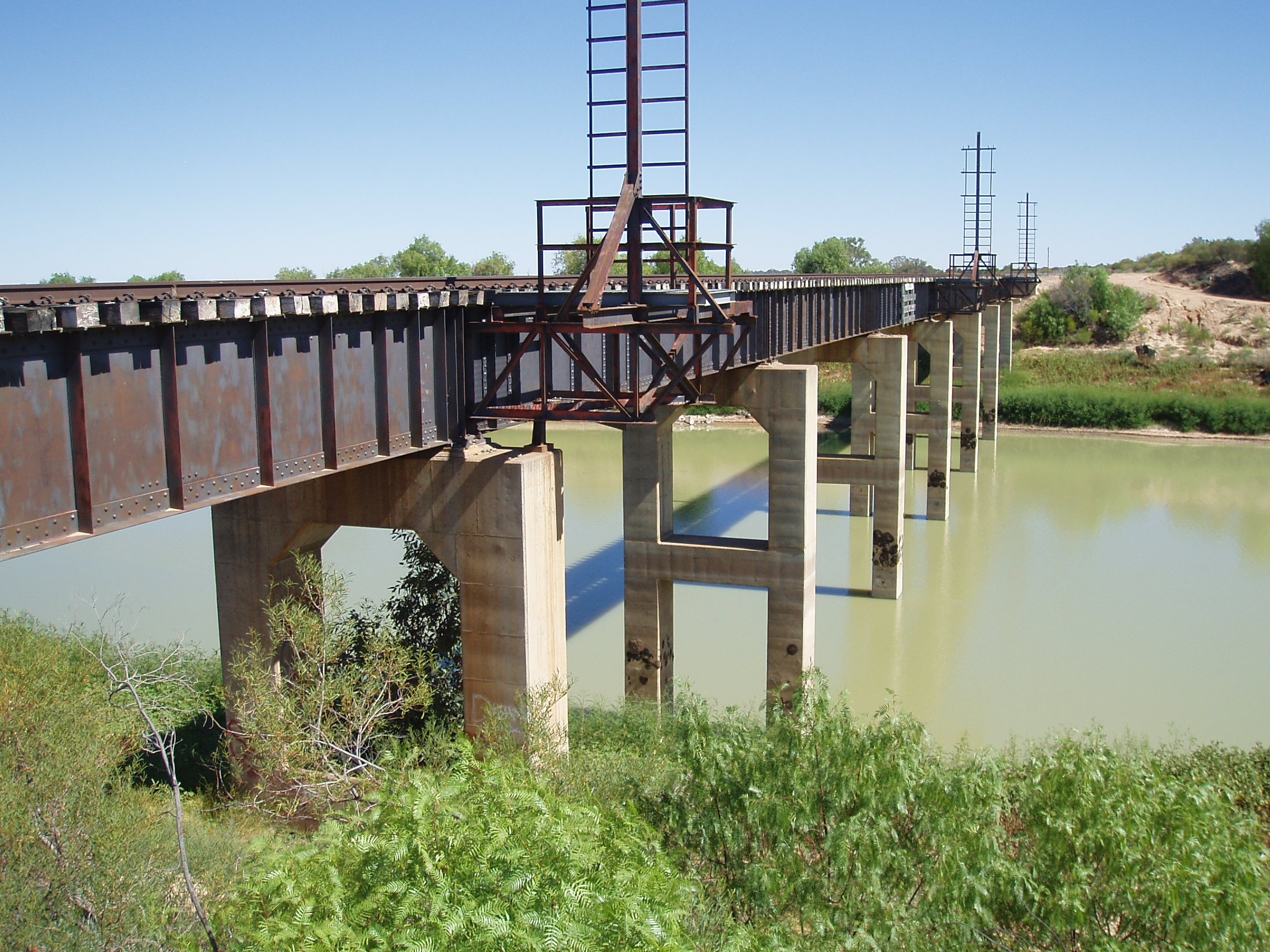 This should have been some sort of Lake look out spot, but I couldn't see much water. Edit by Anonymous: This is the railway bridge at the northern end of Lake Menindee. It is crossing the channel that feeds Lake Menindee from Copi Hollow, itself fed by channel from Lake Pamamaroo. As the photo was taken in March 2009 much of the lake was dry due to drought.